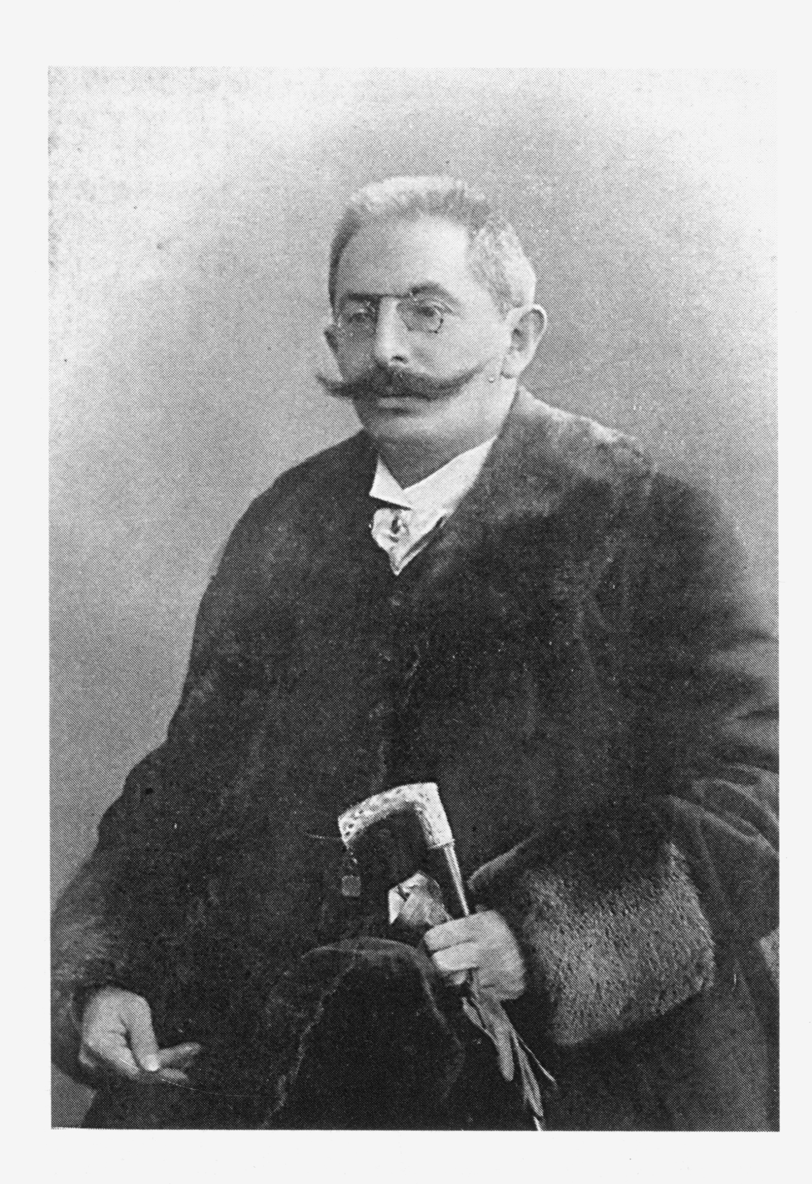 Portrait photography of attorney Fritz Friedmann (1852–1915)